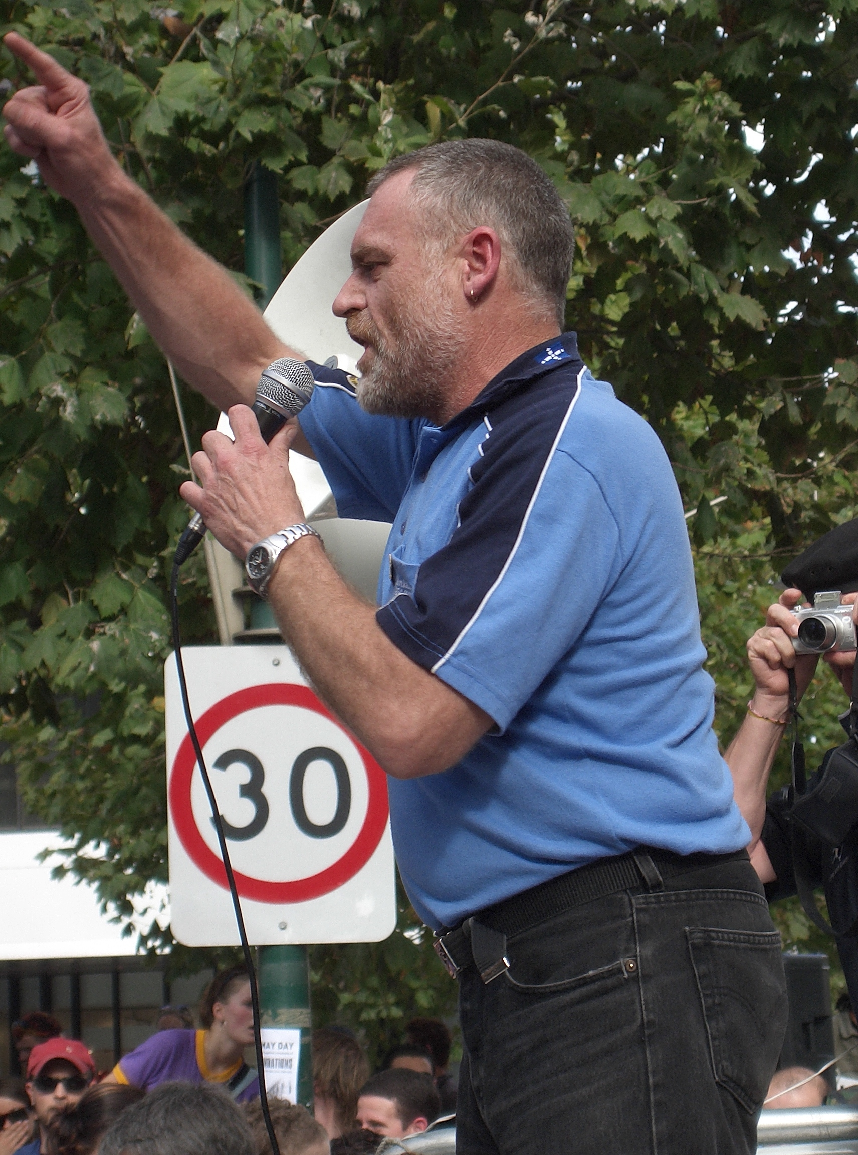 Martin Kingham, the secretary of the Victorian branch of the CFMEU (Construction, Forestry, Mining and Energy Union) speaks at a rally to protest against the Federal government's anti-VSU legislation. State Library, Melbourne. The Eureka Flag is visible on his collar, a common symbol of trade unions in Australia.